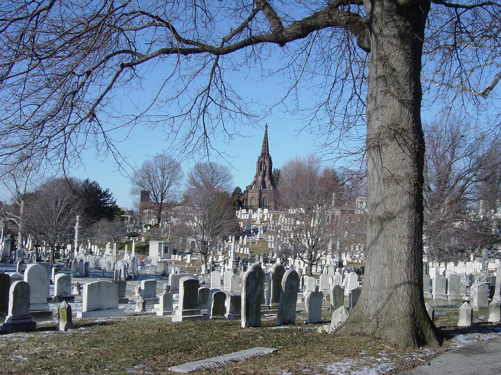 Greenmount Cemetery looking northwest